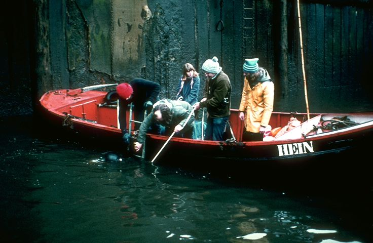 Diver is taking mud probes in the harbour channels in front of the Norddeutsche Affinerie in Hamburg, Germany.